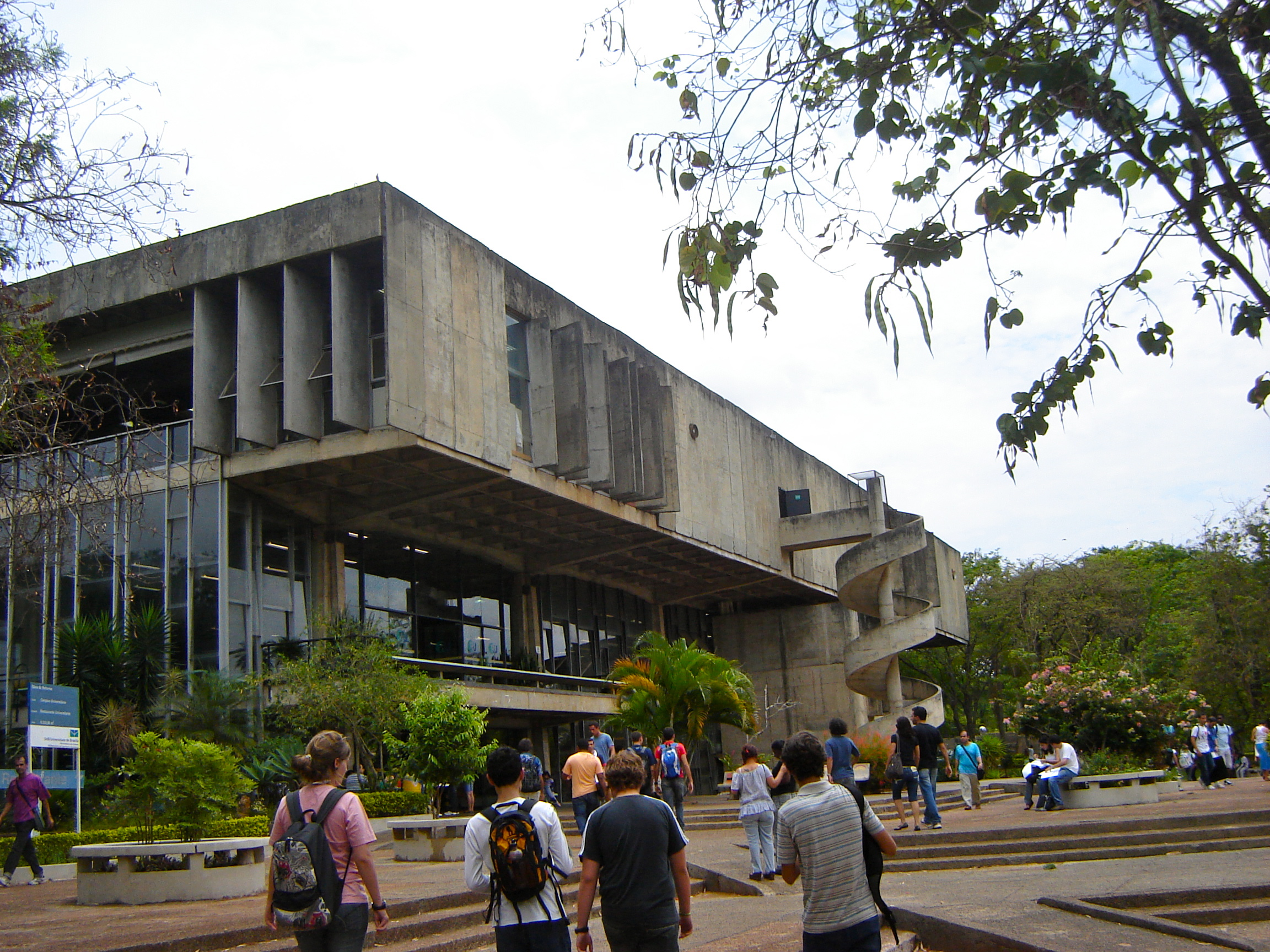 Canteen at the University of Brasília, Brazil.